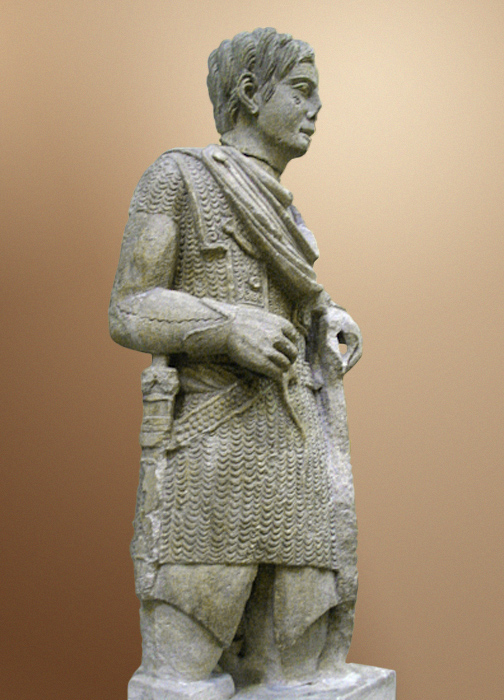 Gallo-Roman statue of a Gaul warrior wearing Roman clothes and weapons; Found : circa 1850 in Vachères, Alpes-de-Haute-Provence, France ; Location : Museum Calvet, Avignon, France.